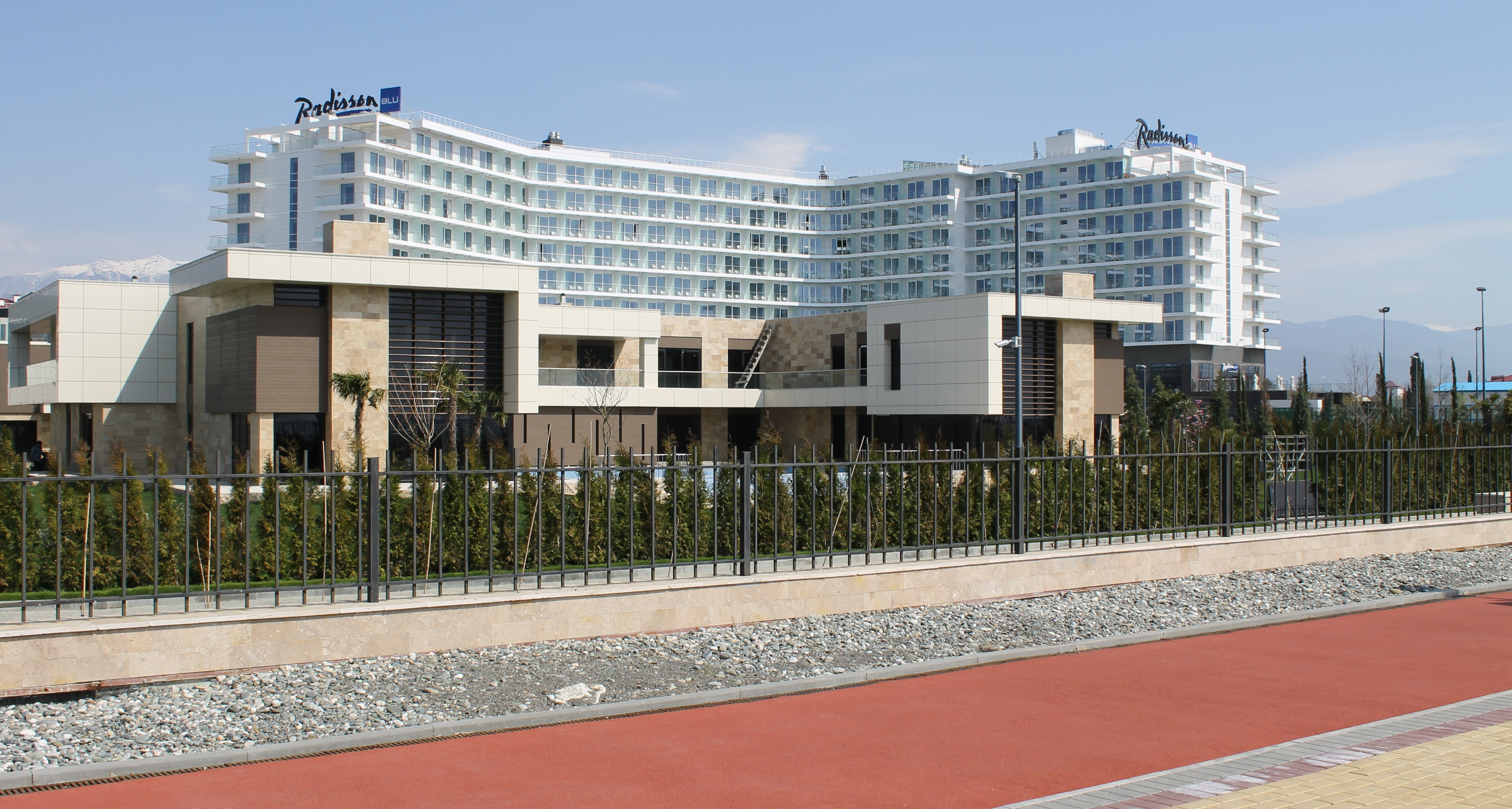 Hotel Radisson Blu in Imeretinskaya Valley